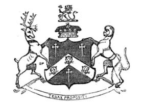 Coat of arms of the Barons Rayleigh (before 1858)